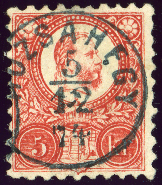 Kingdom of Hungary 5 krajczar stamp, first engraved issue, blue cancelled ROZSAHEGY (Slovakia) in 1874.